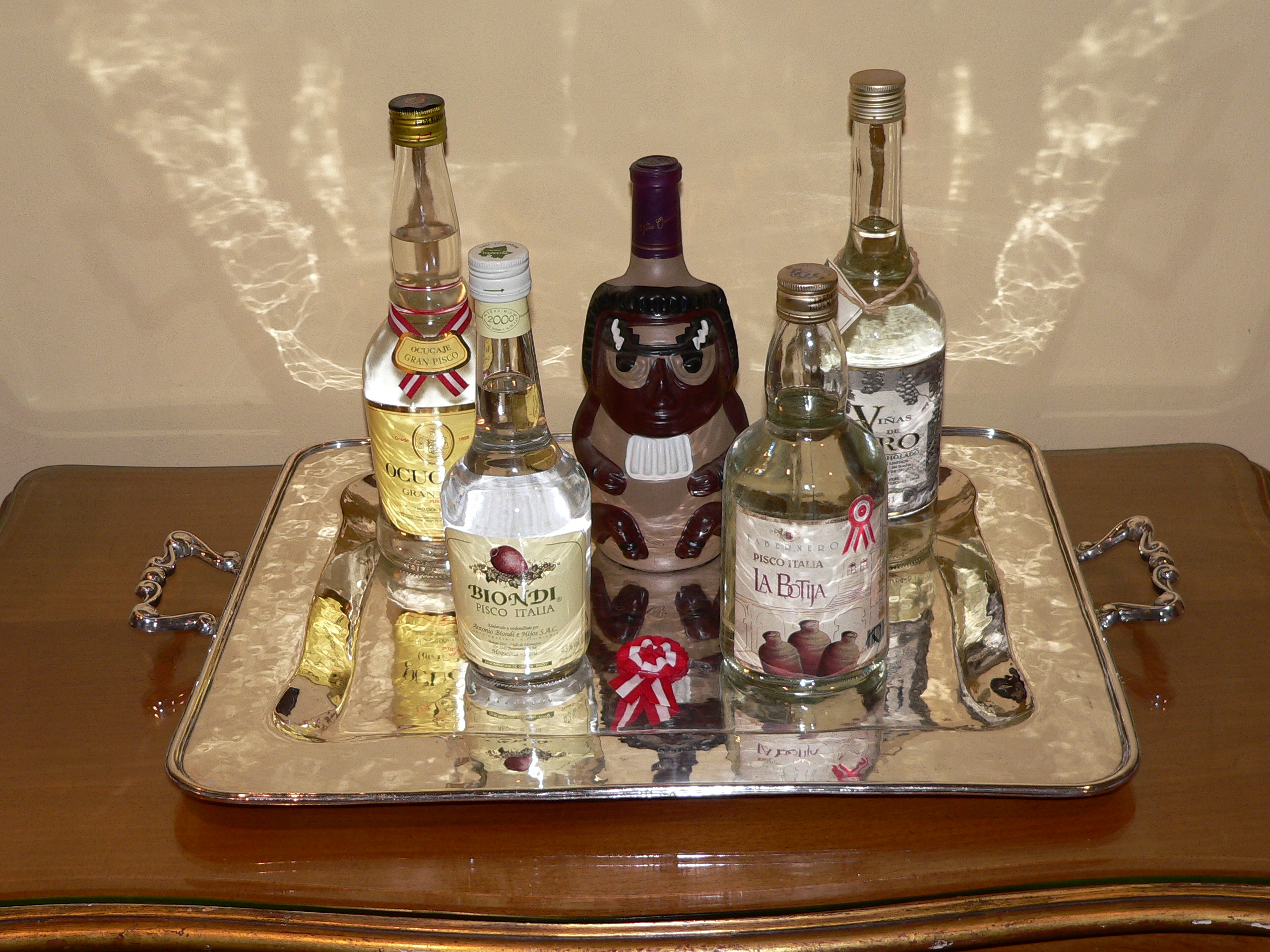 Description: Pisco Subject: Some bottles of pisco Country : Peru Photographer: © Manuel González Olaechea y Franco Shot date : July, 29th , 2005